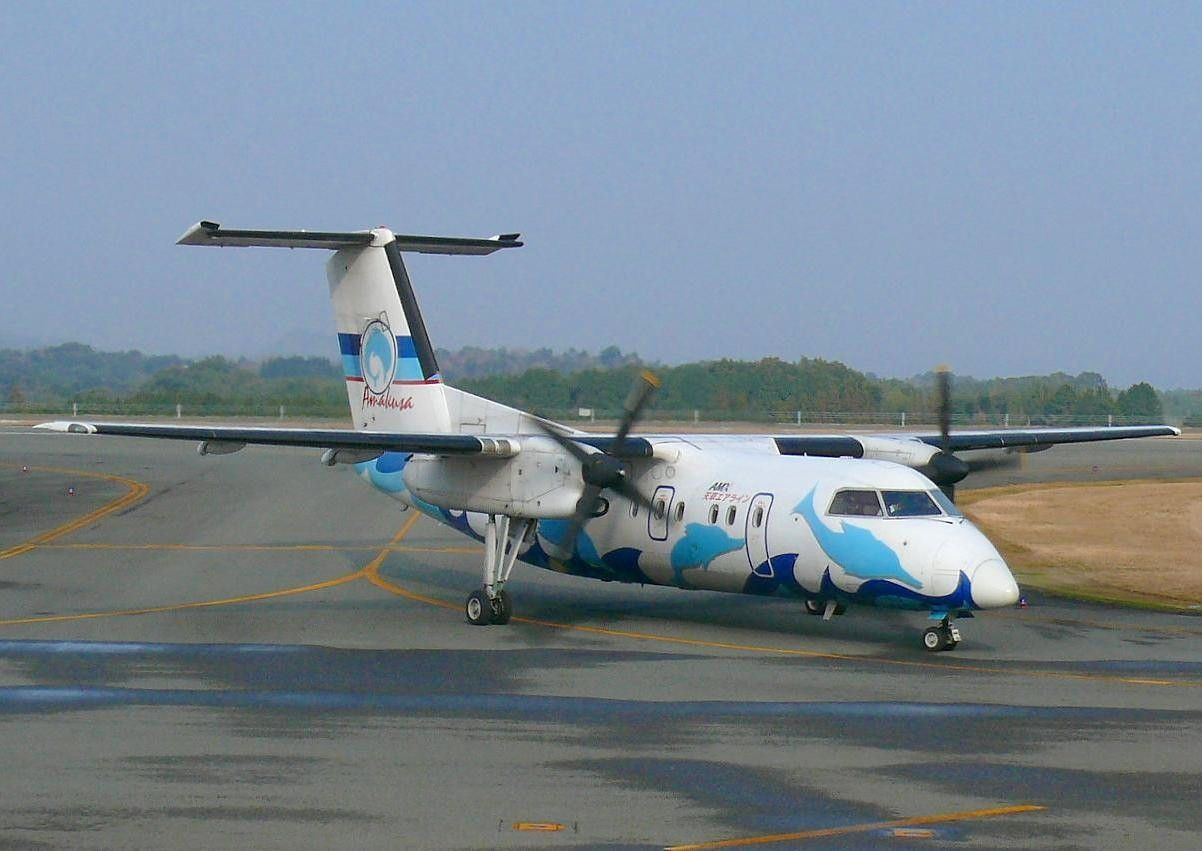 Amakusa-airline Type Dash 8-100 Passenger plane(Japan). It takes a picture from the view deck in the Amakusa airport. See also Ja:天草エアライン for more information(written in Japanese). 天草エアラインが保有する唯一の旅客機DHC8-100。 天草空港にて、展望デッキより撮影。